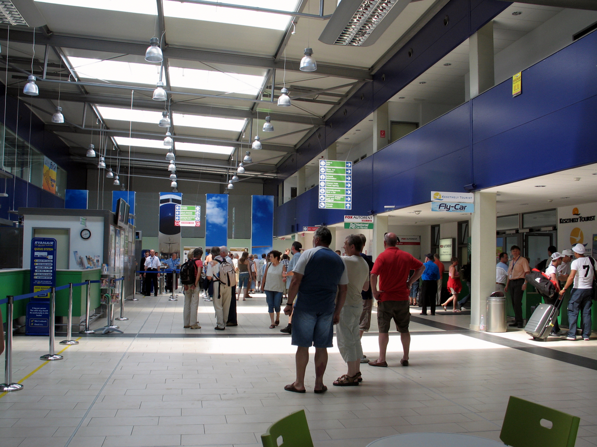 Hévíz-Balaton International Airport, formerly known as Fly Balaton airport entrance. Foto by Victor Belousov.